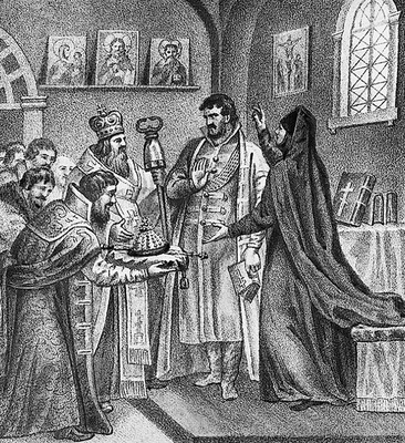 Boris Godunov is elected Tsar of Russia